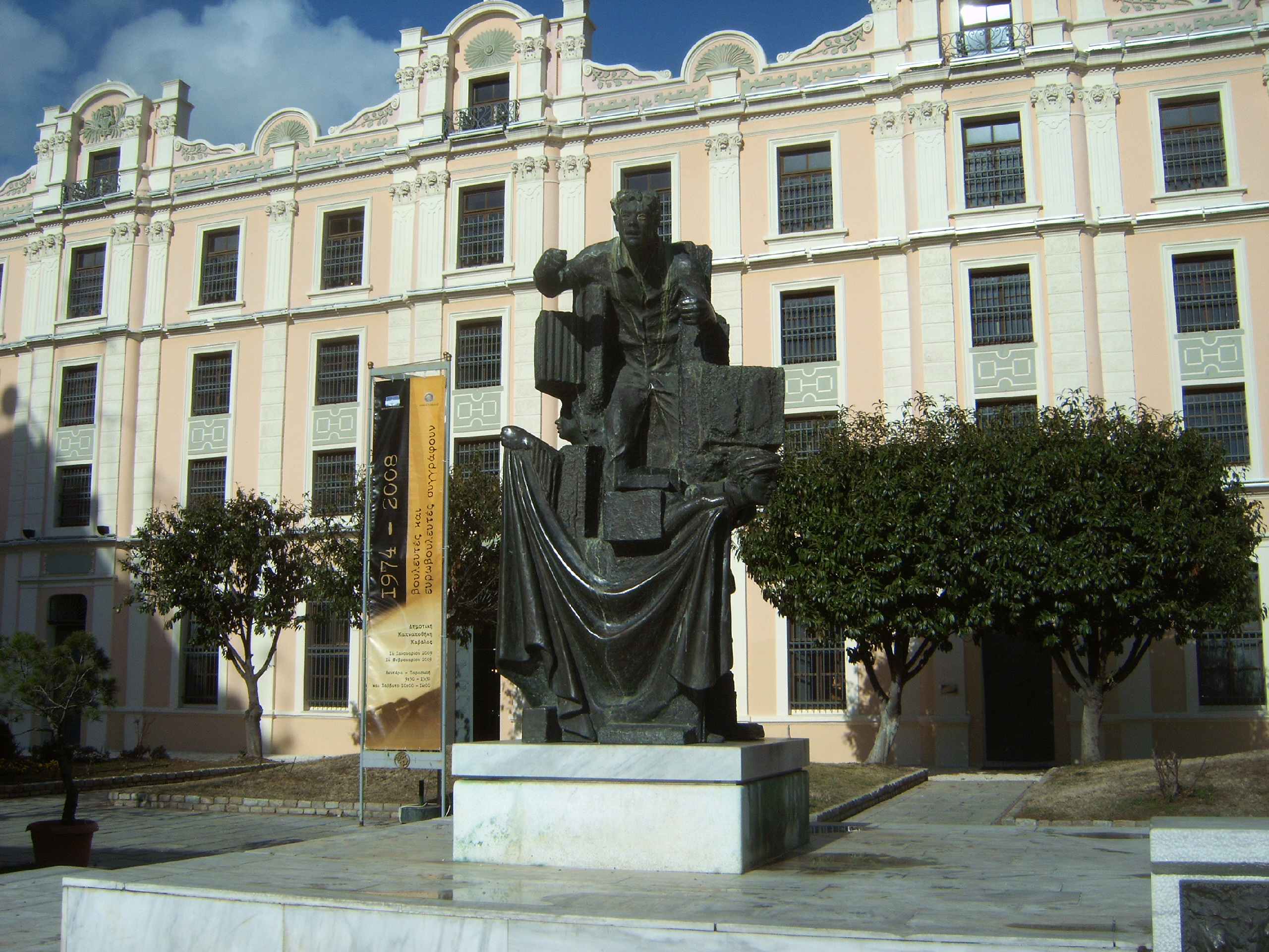 Municipal Tobacco Warehouse